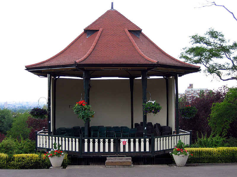 Victorian band stand at the Horniman Museum taken by C Ford 6th July 2004.